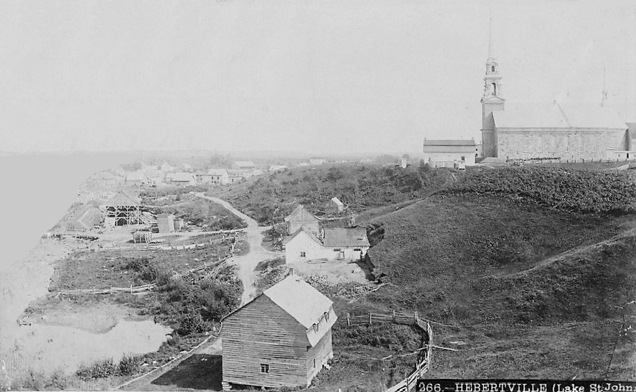 Quebec and Lake Saint-John Railway: General View of Hébertville, Lake Saint-John